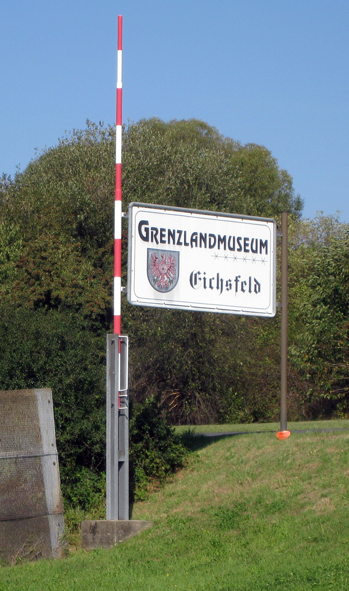 Sign and mock border pole at the Grenzlandmuseum Eichsfeld, Teistungen, Thuringia